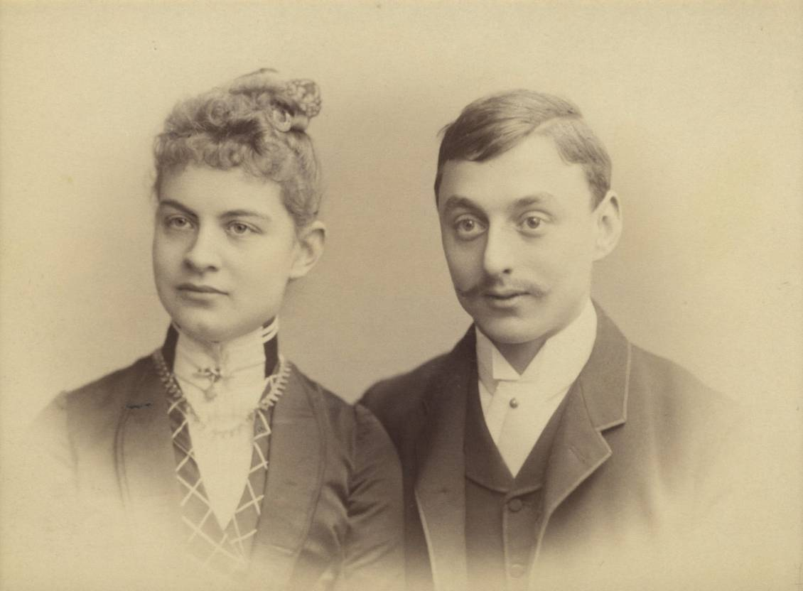 Helene Müller and Anton Kröller ca. 1888. Helene Müller and Anton Kröller founded the Kröller-Müller Museum.